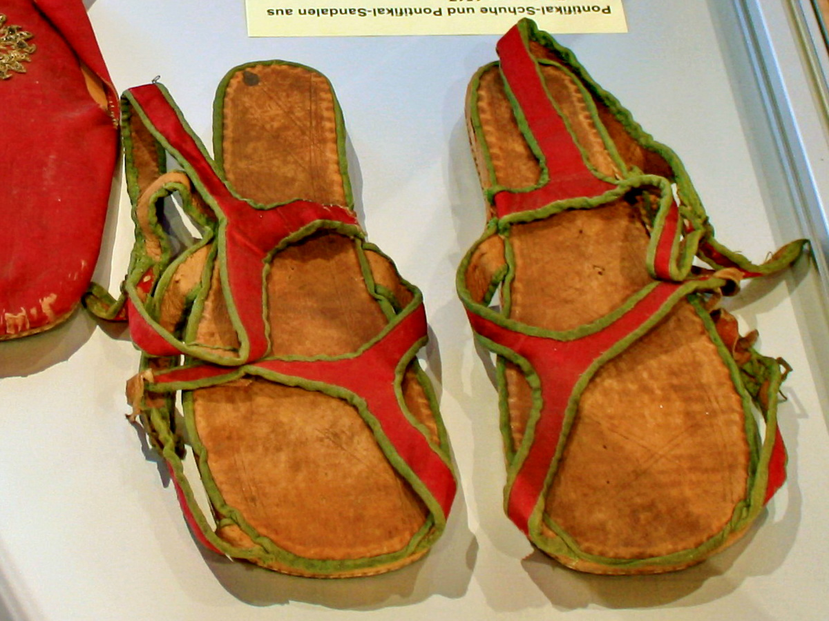 'Stadtmuseum Rapperswil' Rapperswil-Jona : 'Klosterschatz', former Premonstratensian Monastery Rüti (ZH) (1525)